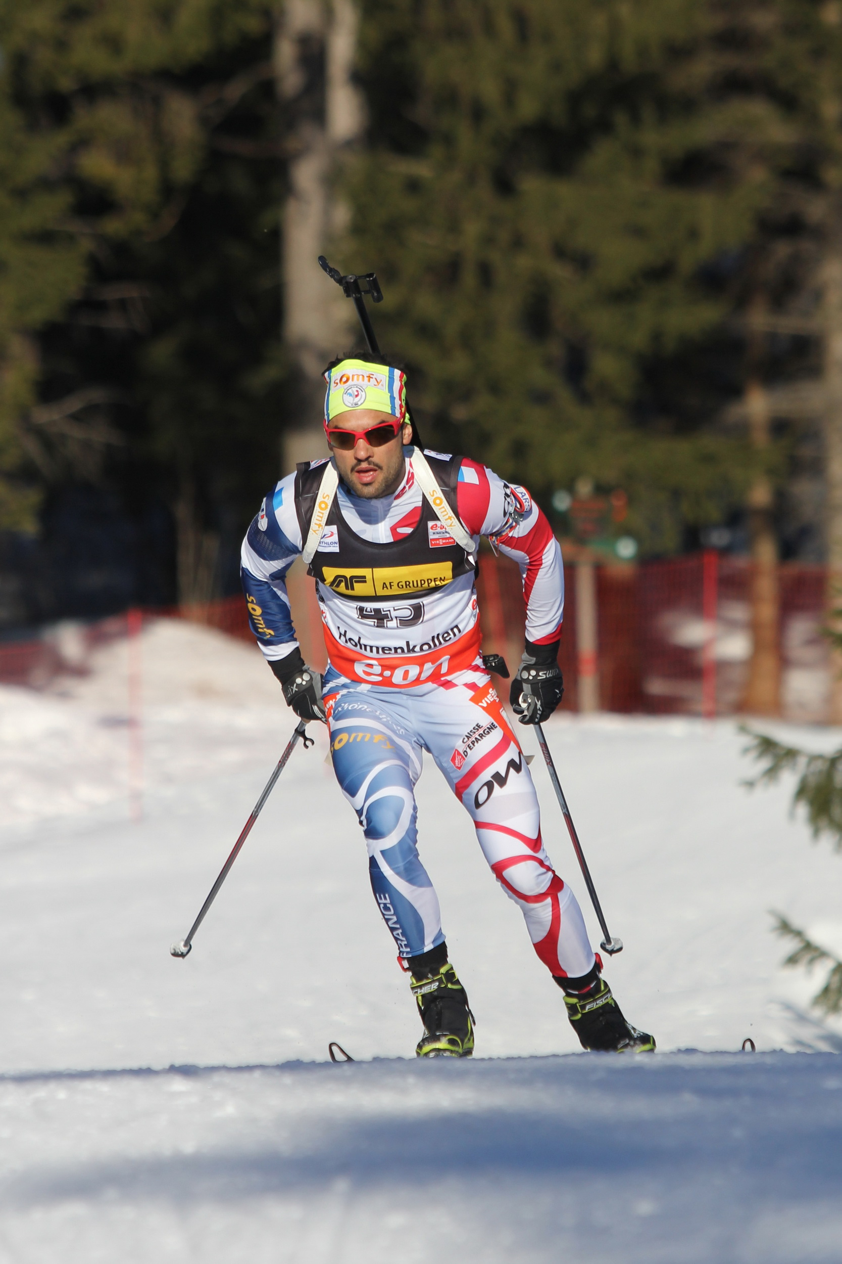 Simon Fourcade at Biathlon Weltcup 2013 in Oslo